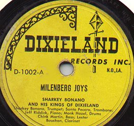 Label of Dixieland Records 78 record of Milenberg Joys by Sharkey Bonano and his Kings of Dixieland